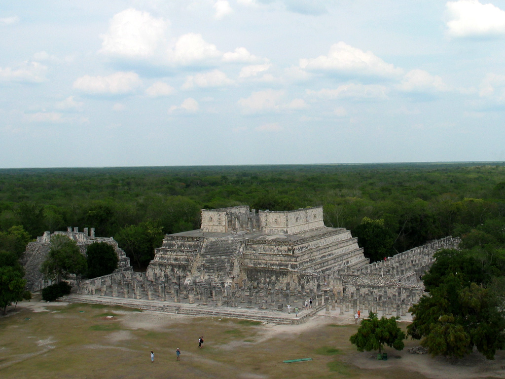 Templo de los Guerreros (Temple of the Warriors) at Chichen Itza.